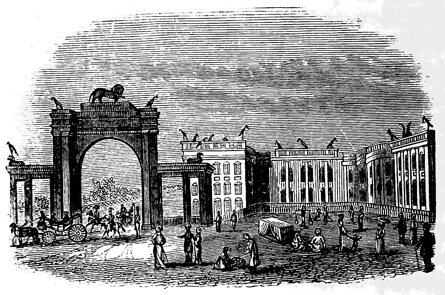 Government House, Calcutta. Currently known as Raj Bhavan in Kolkata, India.